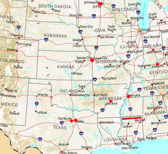 Battle Angel geography on the USA map.